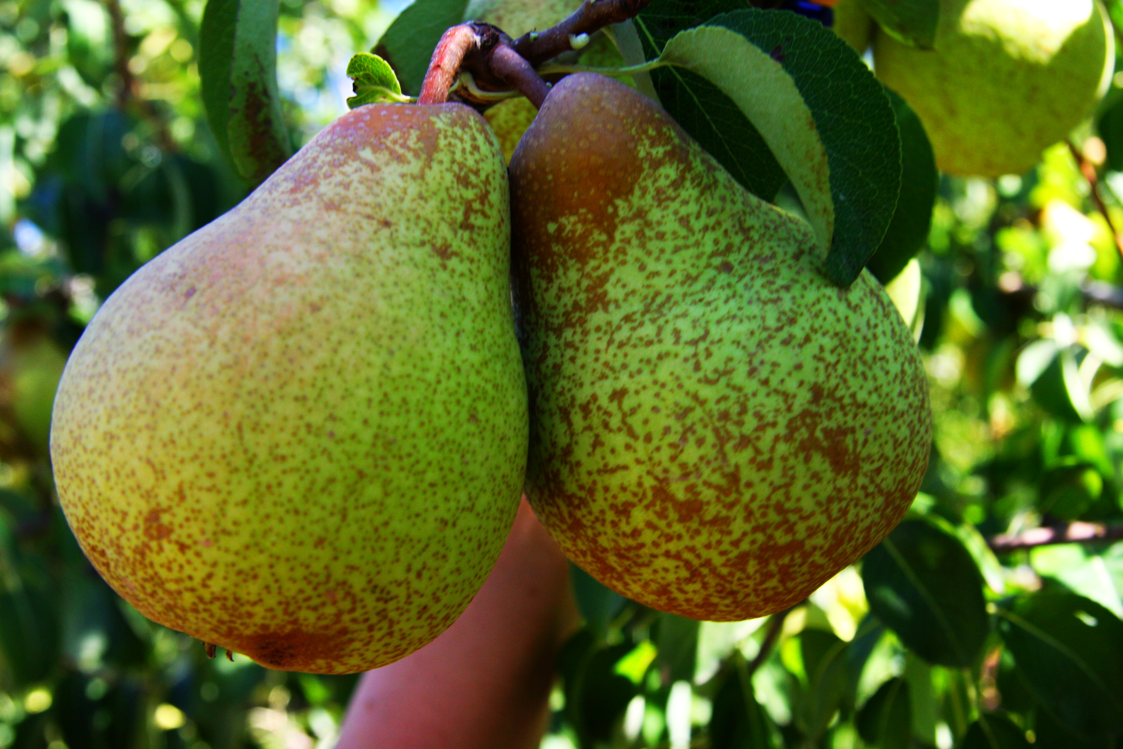 Fruits of Rocha Pear